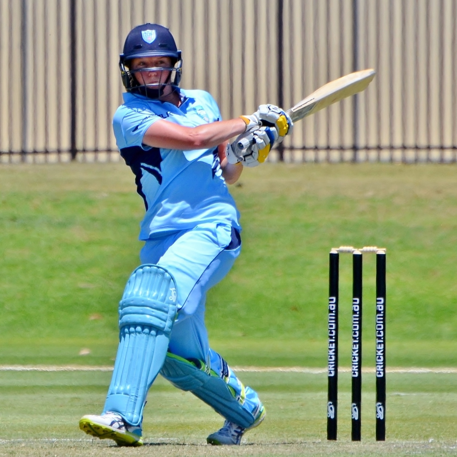 New South Wales Breakers bowler Rene Farrell on her way to a total of 35 not out against the ACT Meteors, in a WNCL top of the table clash at Murdoch University Sports Oval in Perth.